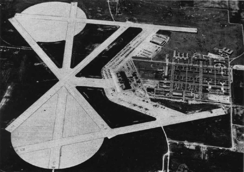 The Naval Air Station Glenview, Illinois, USA, probably in the late 1940s.